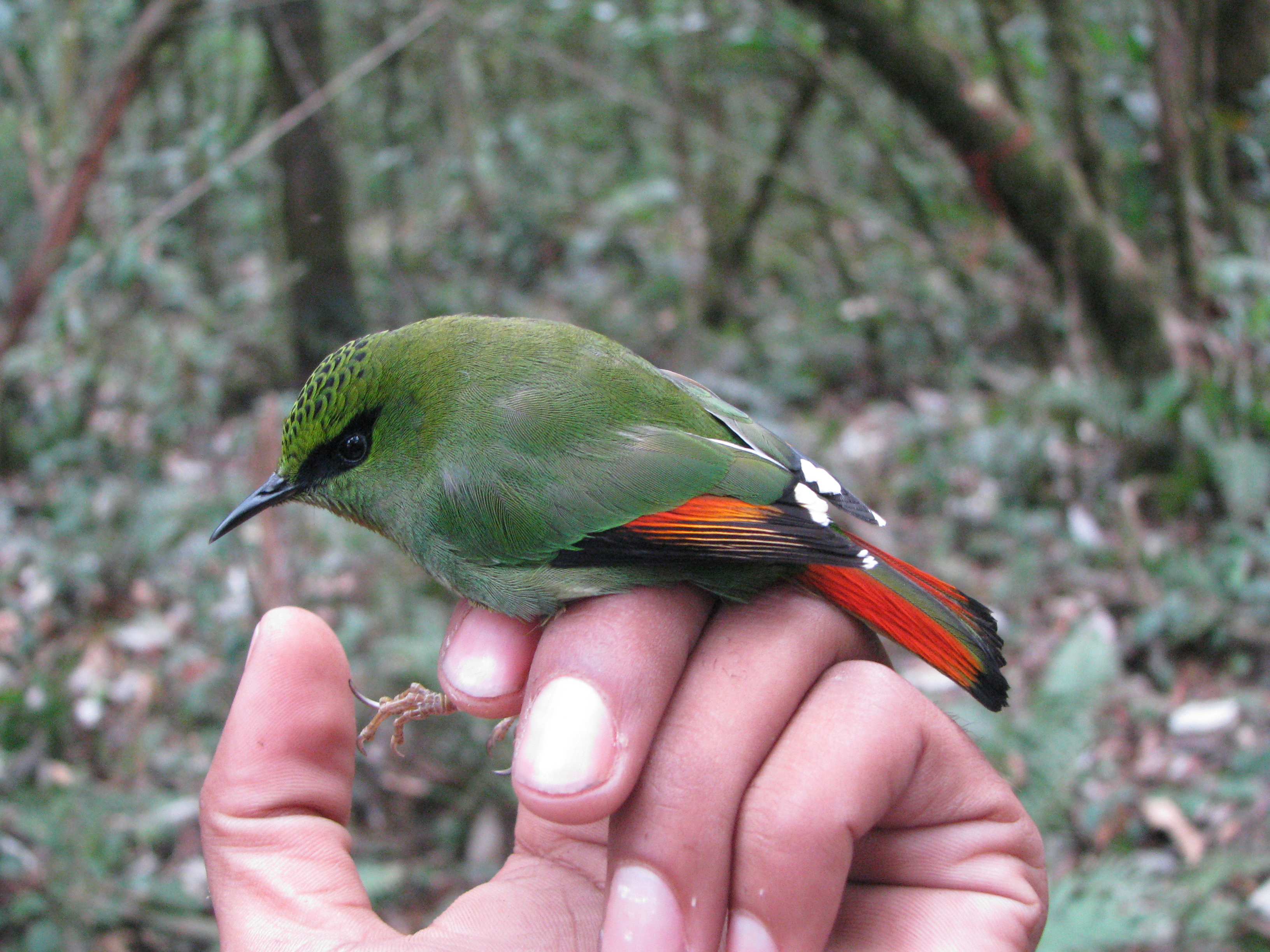 Photo of a Fire-tailed Myzornis held in the hand captured in a mist net in Eaglenest Wildlife Sanctuary in Arunachal Pradesh, India.